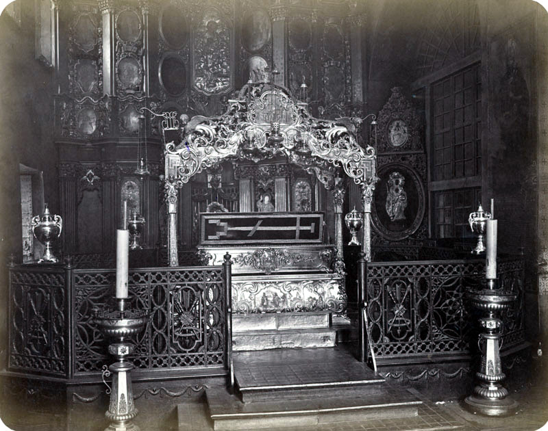 The reliquary with the relics of St Barbara in the Golden-Domed Monastery, Kiev